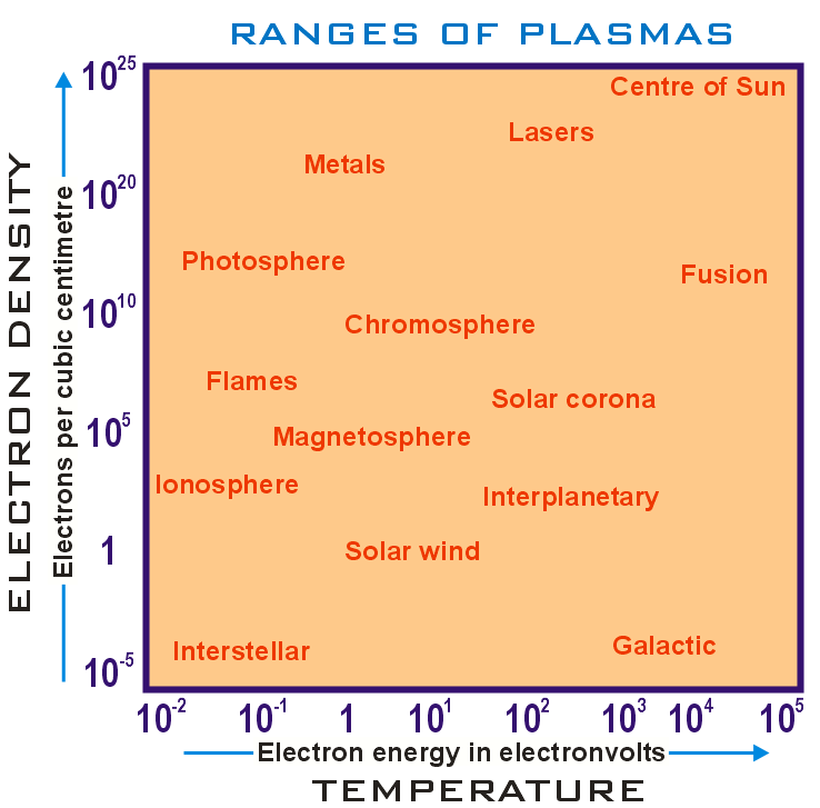 The remarkable range of plasmas. Automatically converted to PNG